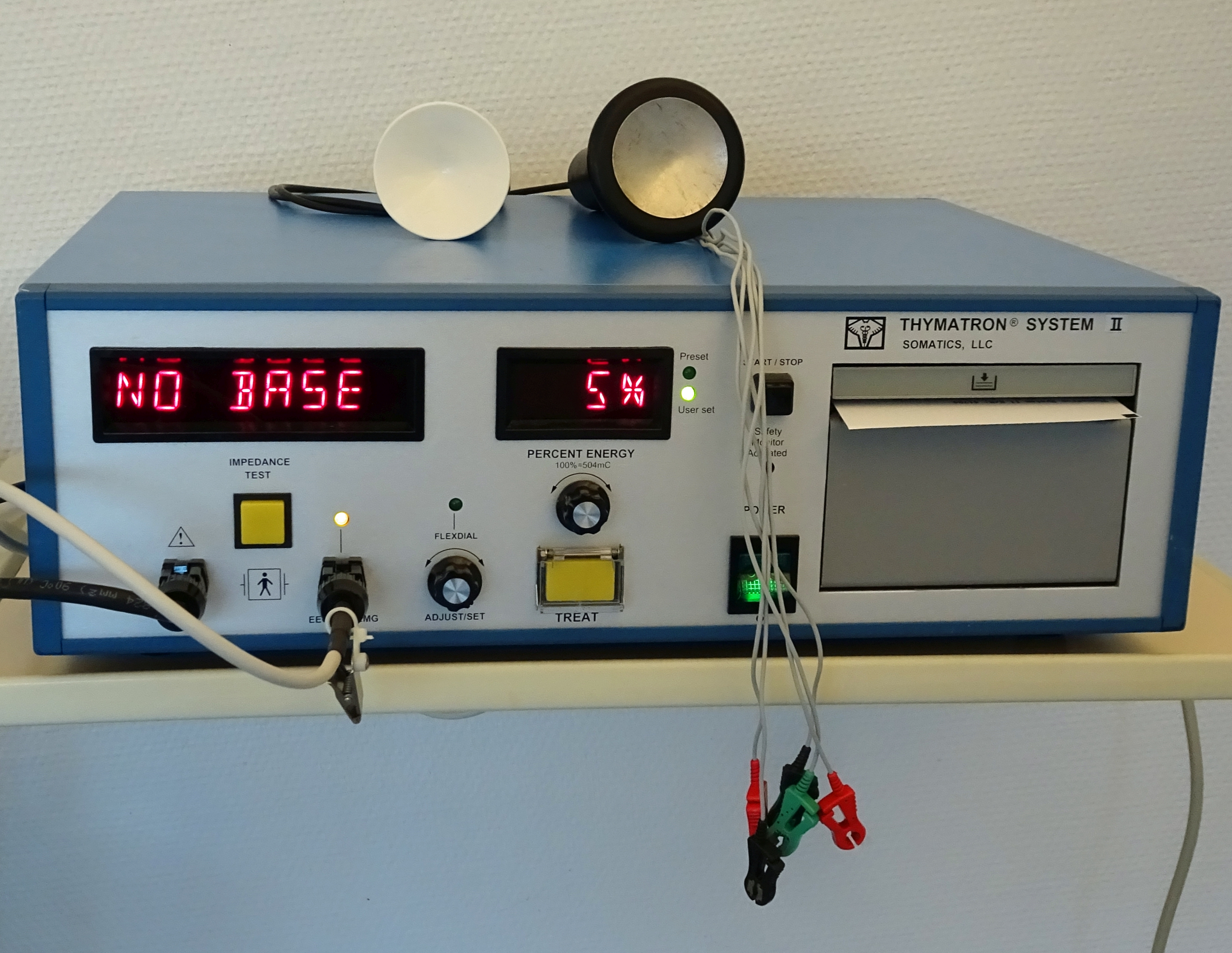 Thymatron II (Somatics) device for electroconvulsive therapy